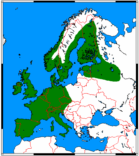 Range map for West European Hedgehog (Erinaceus europaeus), made by me with help of Map depending on the range map at IUCN red list.